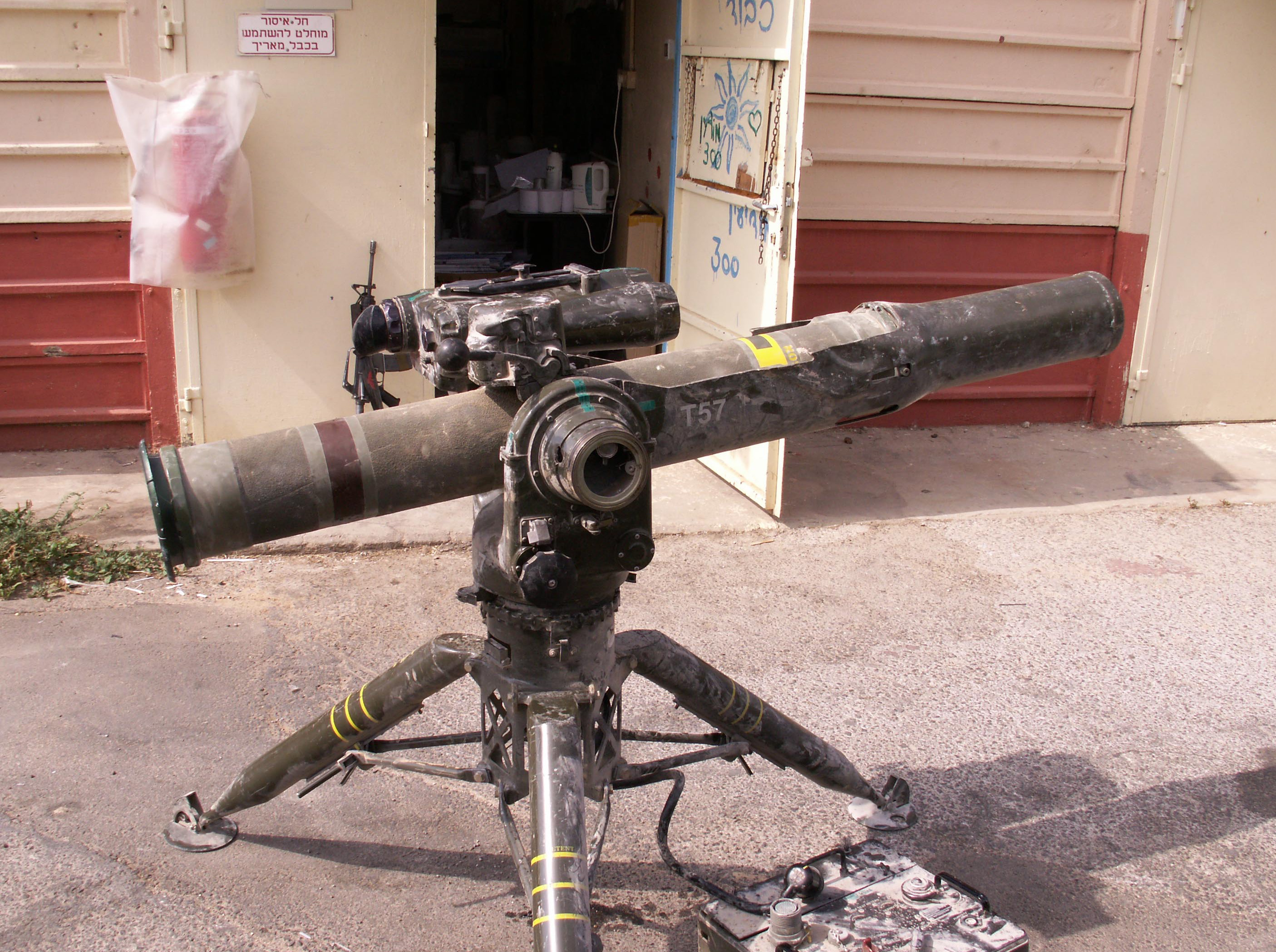 Weaponry captured by IDF forces in Southern Lebanon. (note: it is unknown whether this is a Toophan missile, a TOW missile, or some combination of them both.[1])